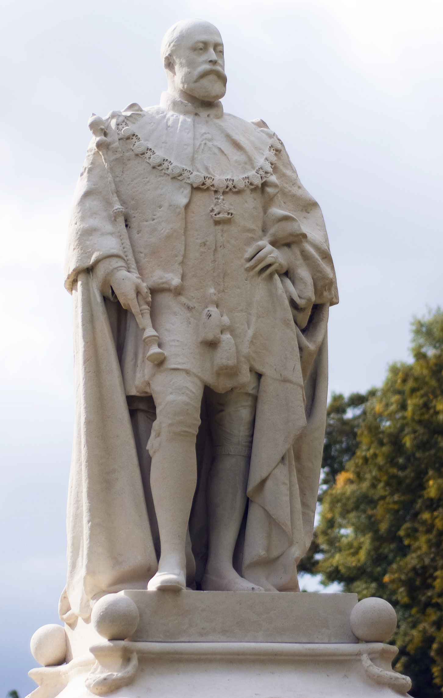 Statue of Edward VII in Beacon Park, Lichfield